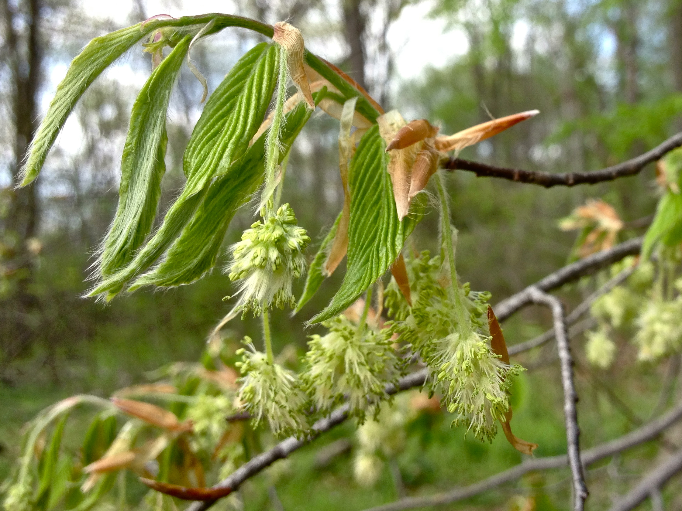 Photo of Fagus grandifolia in flower. This is a native plant growing wild on Theodore Roosevelt Island, in Washington, D.C., USA. This species is a member of the Fagaceae family.